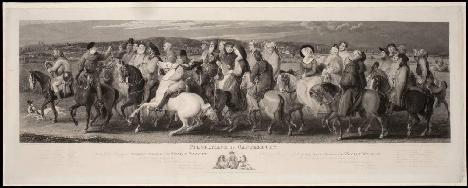 After Thomas Stothard, The Pilgrimage to Canterbury, engraved by Louis Schiavonetti and James Heath 1809-17 Artwork details Artist After Thomas Stothard (1755‑1834) Title The Pilgrimage to Canterbury, engraved by Louis Schiavonetti and James Heath Date1809-17 MediumEtching and engraving on paper Dimensionsunconfirmed: 269 x 958 mm Collection Tate AcquisitionPurchased 1994 Reference T06857 Robert Cromek, who had commissioned the original painting of the Canterbury Pilgrims from Stothard, was eager to have the image engraved. In fact this engraving was not published until 1817, by which time Cromek had died. The print was a great commercial success. In 1855 it was said that ‘few, if any, engravings of that period were so popular with the public’. A key to the figures in the picture is printed under the image.